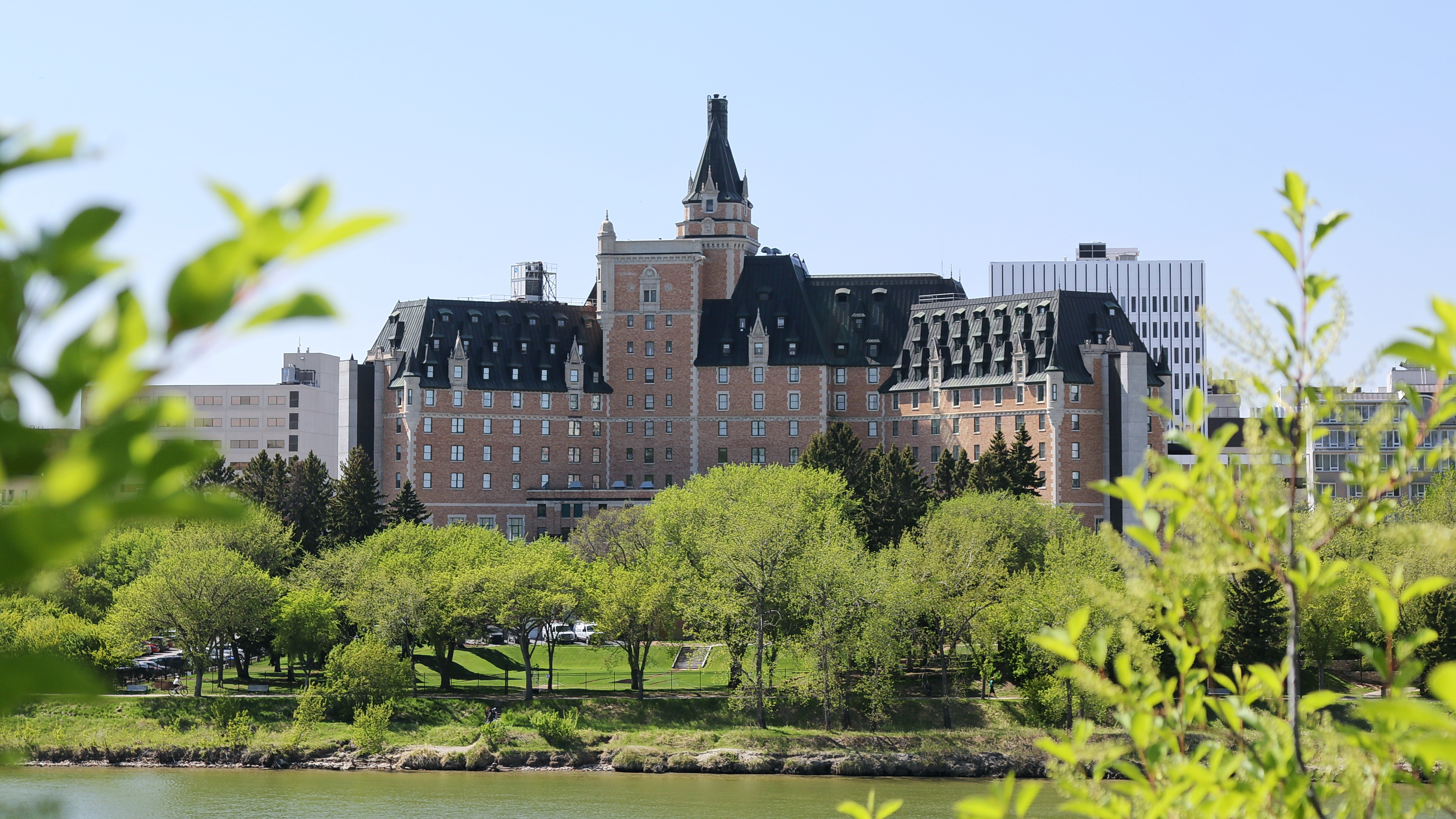 Delta Bessborough, Spadina Cres E, Saskatoon, Saskatchewan, Canada